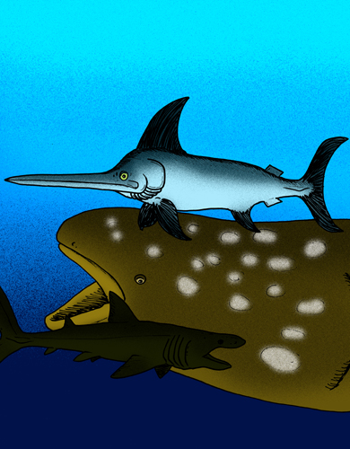 Reconstruction of the Oligocene-aged swordfish, Xiphiorhynchus rotundus, from Oligocene Chandler Bridge Formation in South Carolina, as compared to a whale shark, Rhincodon typus, and a basking shark, Cetorhinus parvus.